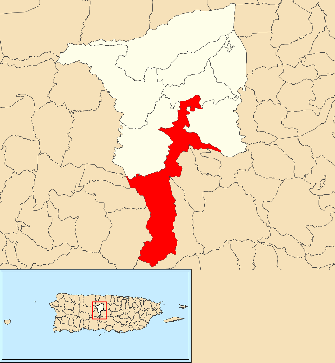 Toro Negro, Ciales, Puerto Rico locator map